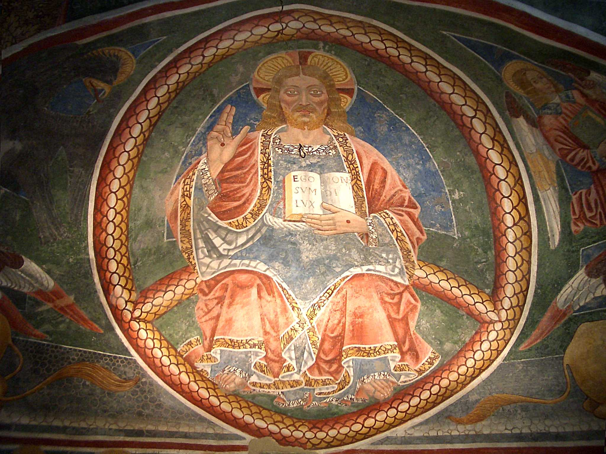 Francesco Cagnola, Christ Pantocrator, fresco, 1507, Bolzano Novarese, Chiesa di San Martino di Engrevo